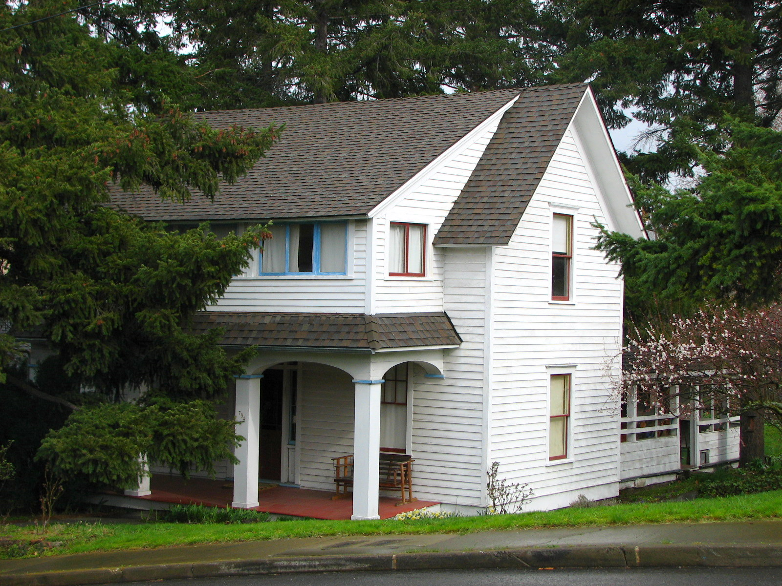 The historic Fulton–Taylor House (built ca. 1858), located at 704 Case Street in The Dalles, Oregon, United States, is listed on the US National Register of Historic Places.